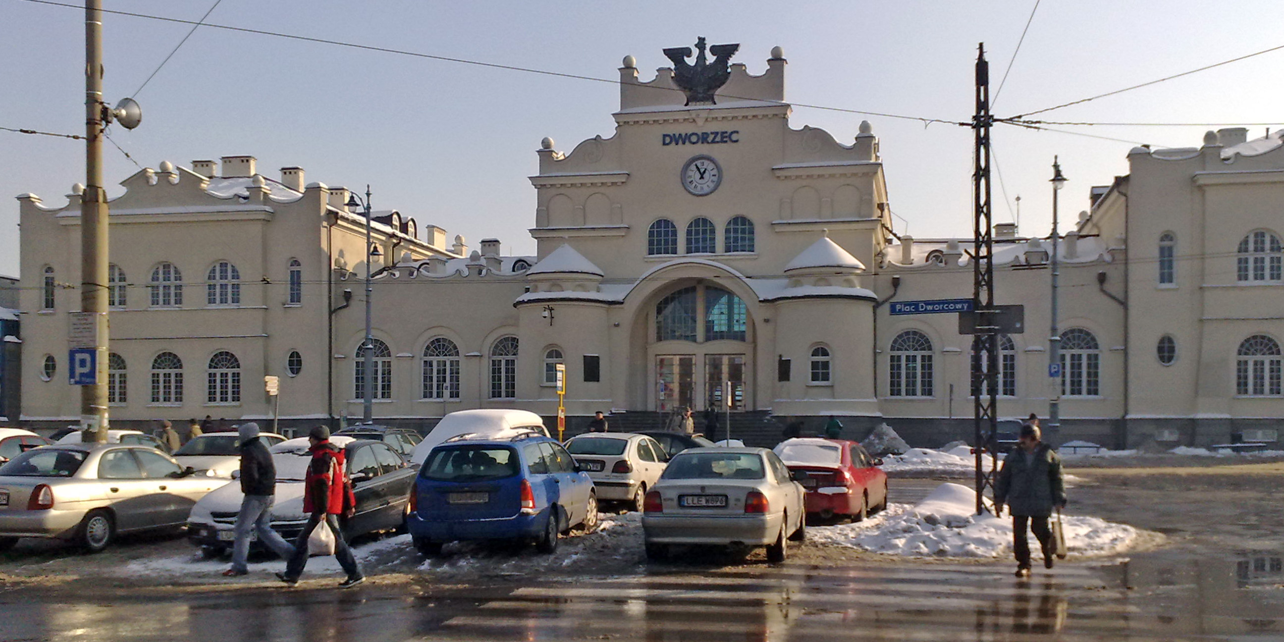 PKP railway station in Lublin.